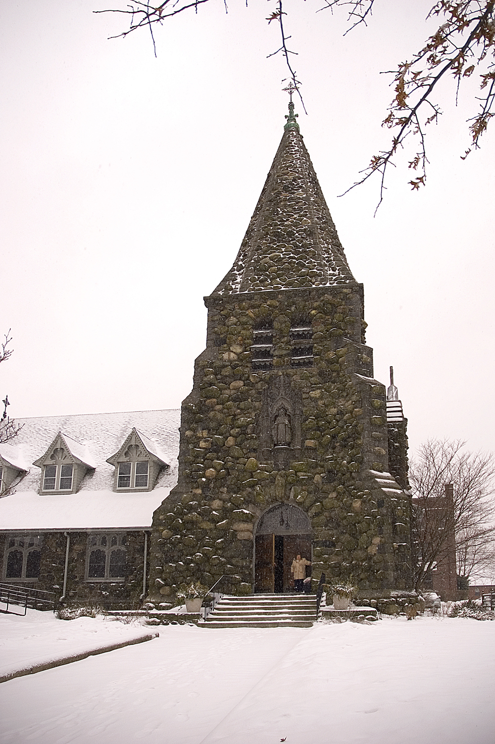 Christ Church in Waltham, Massachusetts during the winter.